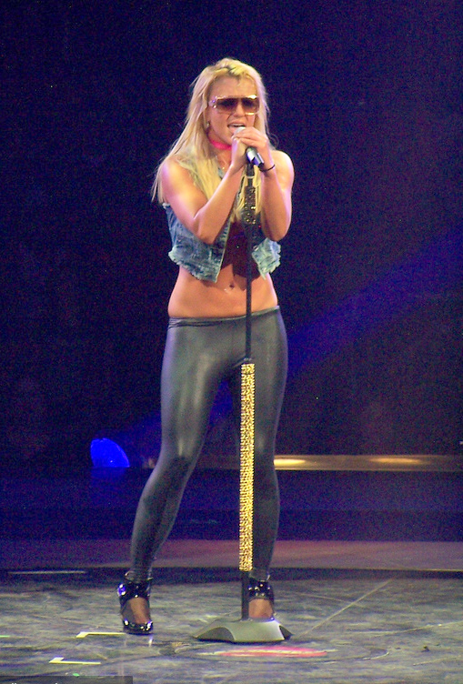 Spears performing You Oughta Know